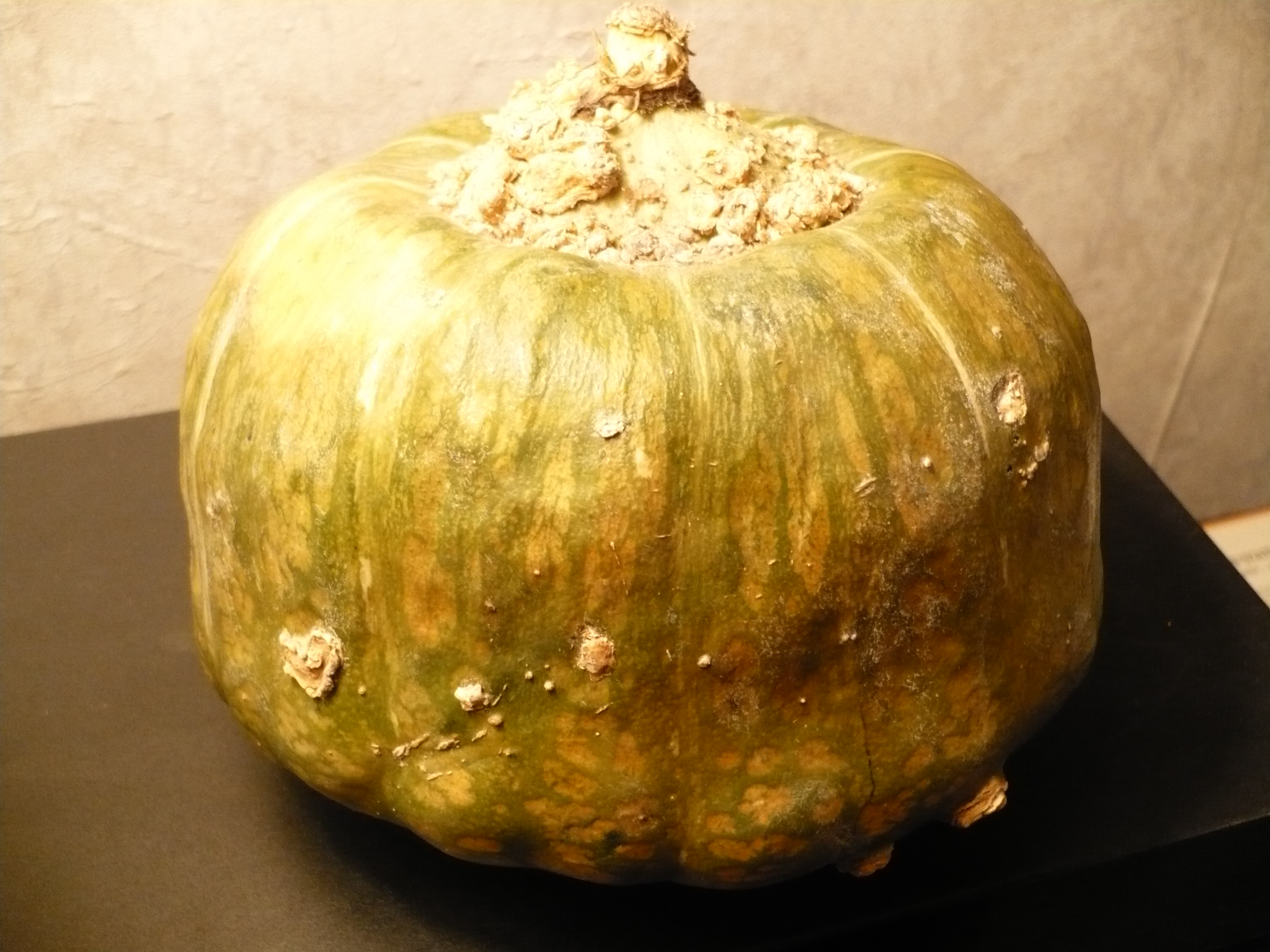 A Buttercup squash (species Cucurbita maxima, a variety of winter squash), flower end facing up (stem end facing down). Buttercup squash purchased in Cuyahoga Falls, Ohio, United States. Photo taken in Kent, Ohio, United States.